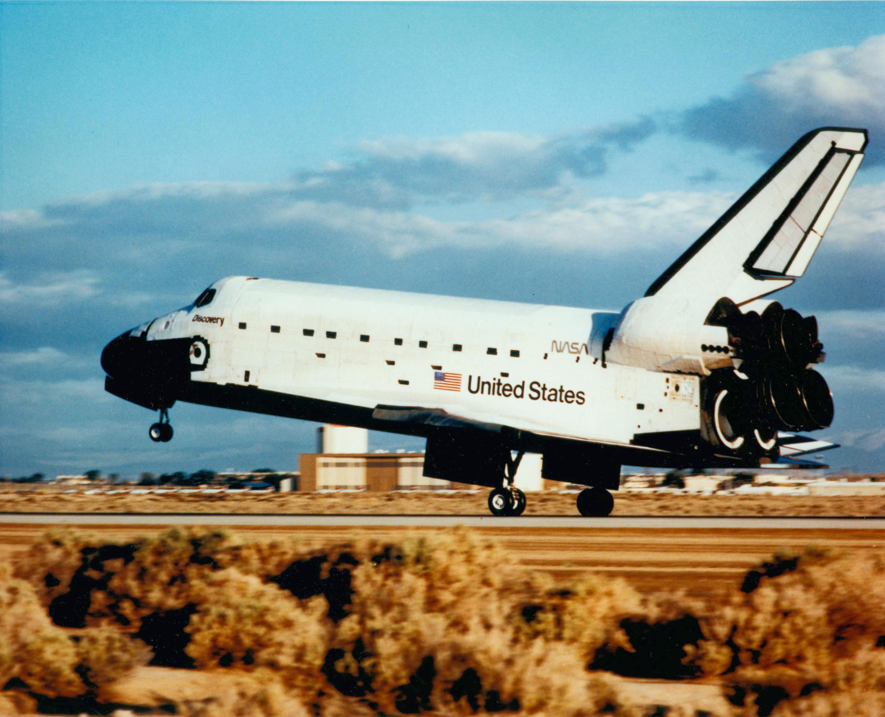 Discovery touches down at Edwards Air Force Base at the conclusion of STS-31.